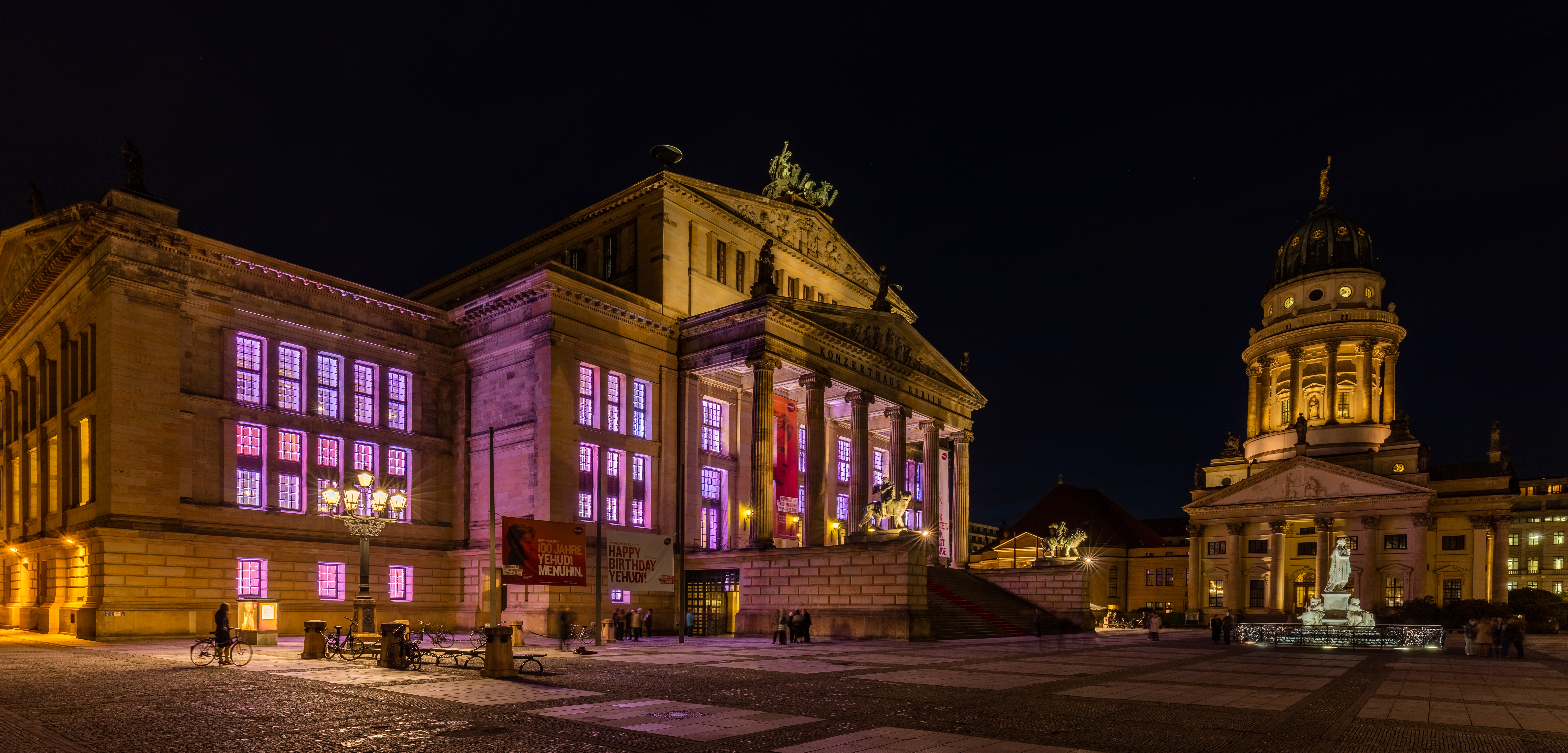 Concert hall, Berlin, Germany